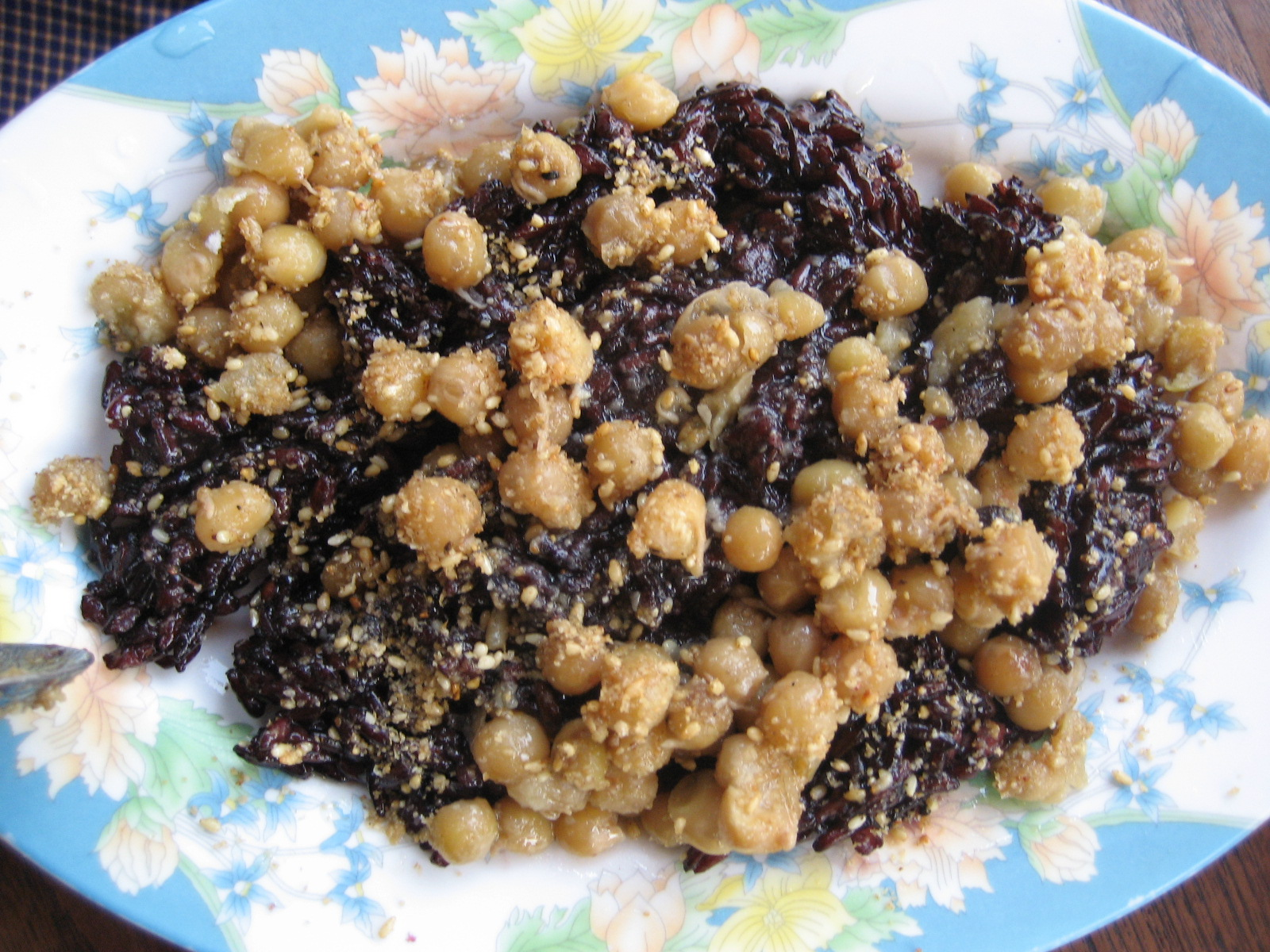 Ngacheik paung - the purple variety of glutinous rice with pè byouk (boiled peas} and lightly salted toasted sesame